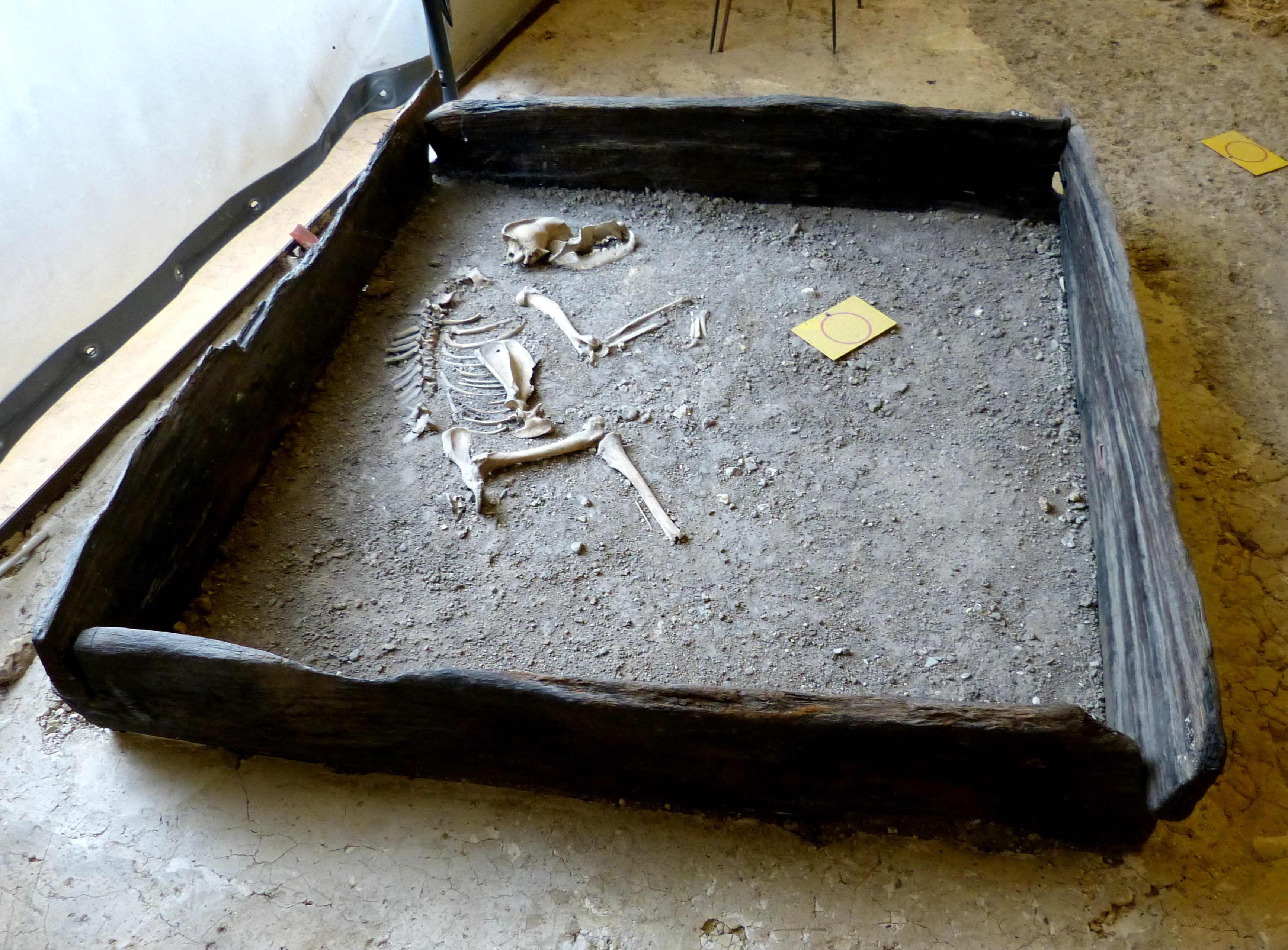 Konstanz ( Baden-Württemberg ). Archaeological Museum of Baden-Württemberg: Reconstruction of the excavation of ancient Roman fountain 13 ( 215 AD ) in Rainau-Buch.